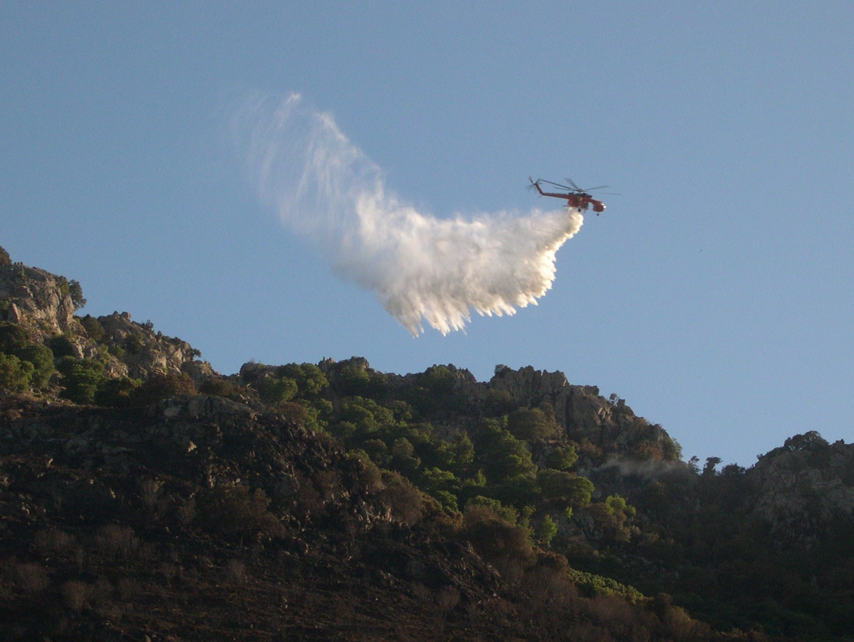 Skycrane CH-54 working to stop a fire in Corsica (Avapessa village), France.